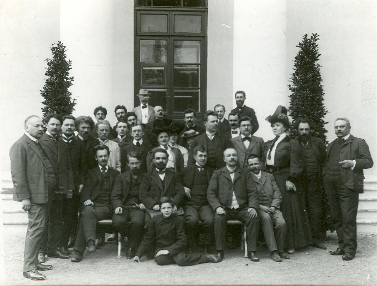 Press Bureau of the State Duma of the Russian Empire of the first convocation. There is Malahiy Bolkvadze in the center.